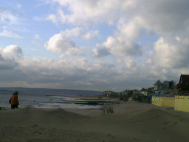 The beach strip of the eastern portion of the Seagate, Brooklyn